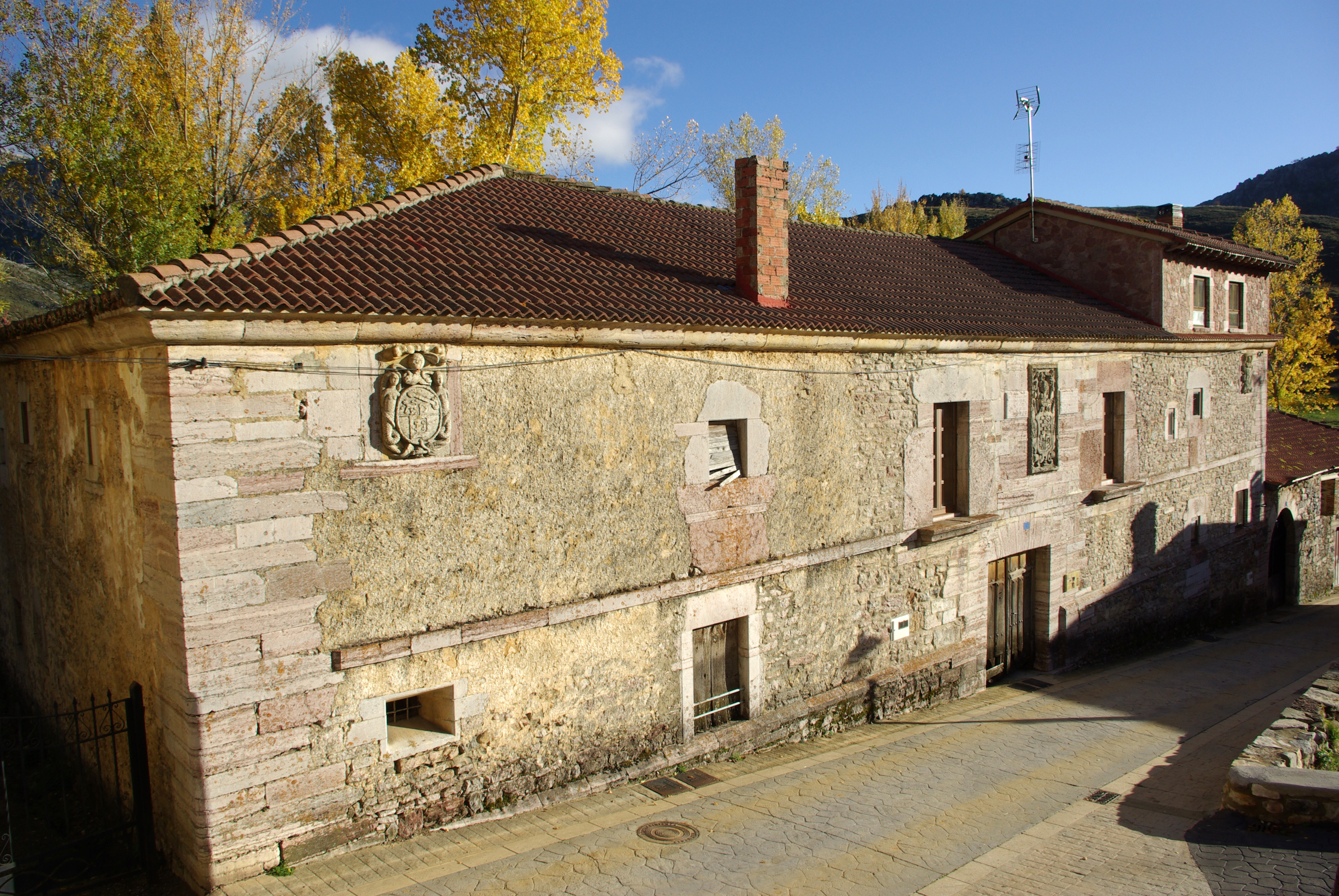 Reyero's Palace in Lois, Crémenes (León, Spain).